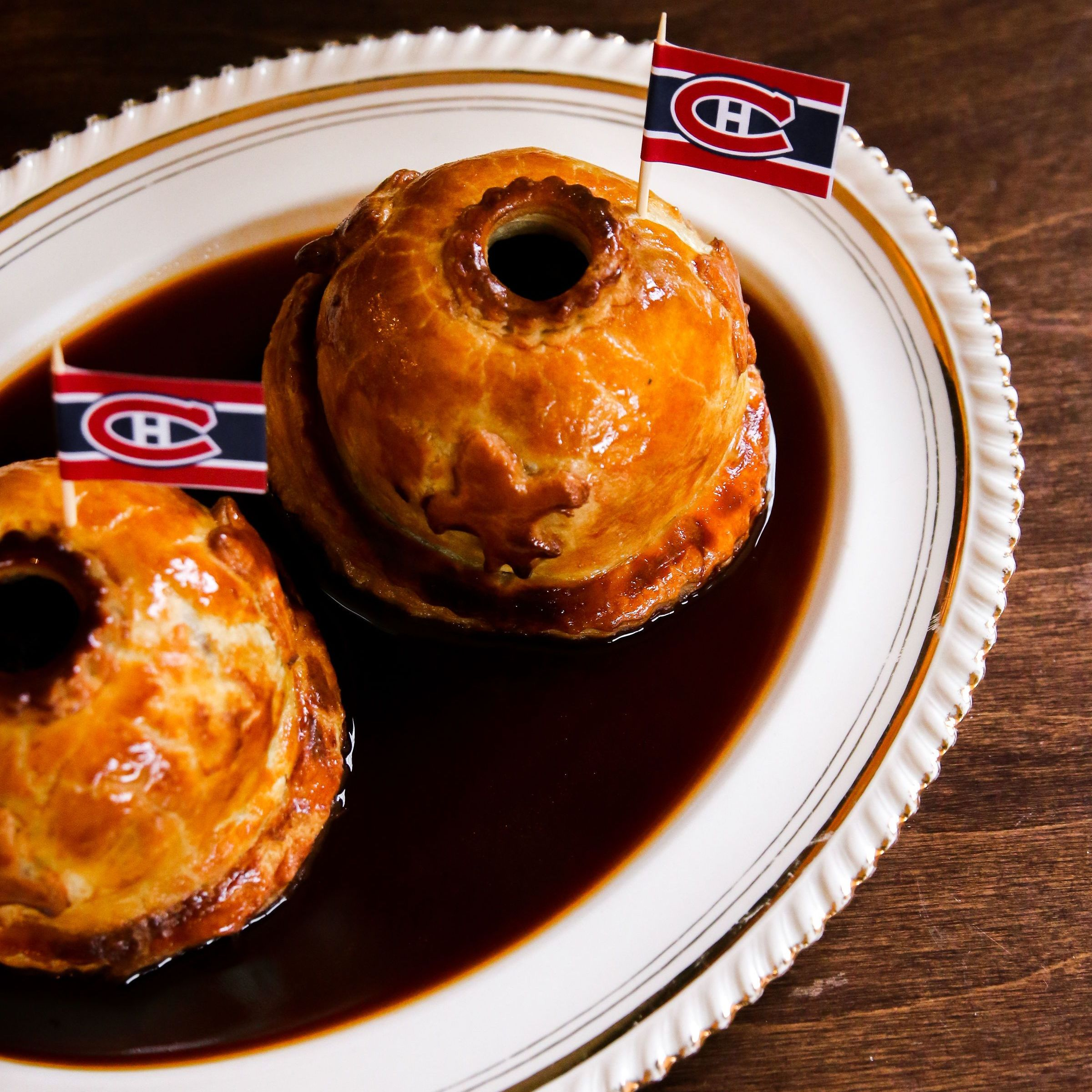 Venison tourtiere at St. Lawrence restaurant in Vancouver with Montreal Canadiens flag on top, on a white plate with gilded trim, in a pool of dark sauce.